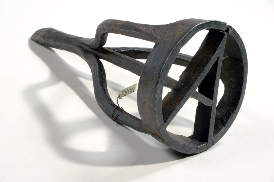 Note: For documentary purposes the original description has been retained. Factual corrections and alternative descriptions are encouraged separately from the original description.Brännjärn Hingstdepå, helbild - LRK 24479 Nyckelord: Brännmärkning, Boskap, Branding, Brännjärn, Föremålsbild, Symboler